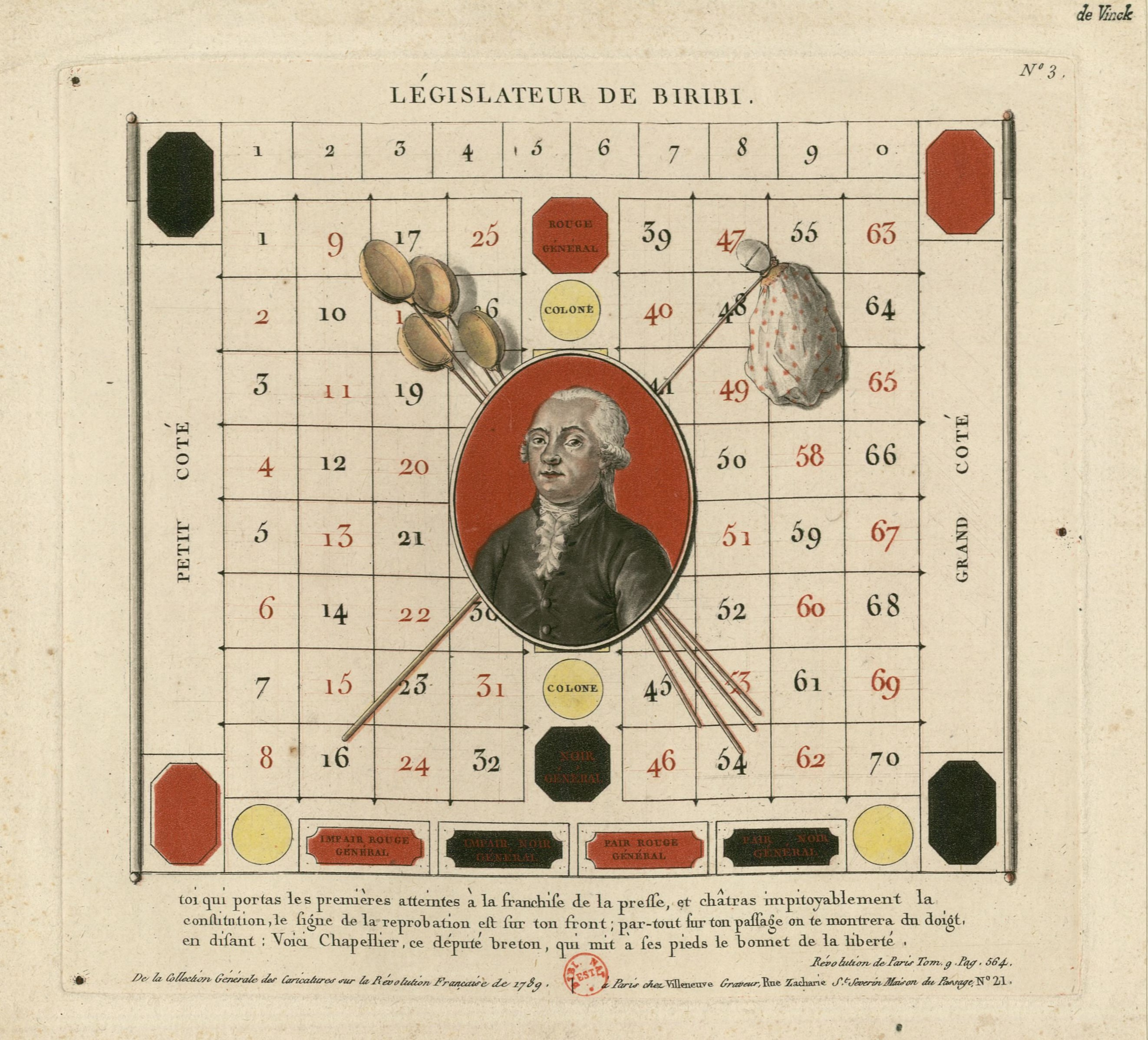 Anonymous caricature of Isaac Le Chapelier (1754-1794) depicted as a "Biribi Legislator".